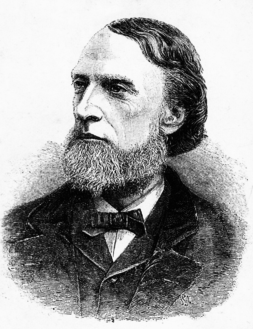 Arthur Tappan Pierson D.D, Pastor and theologian